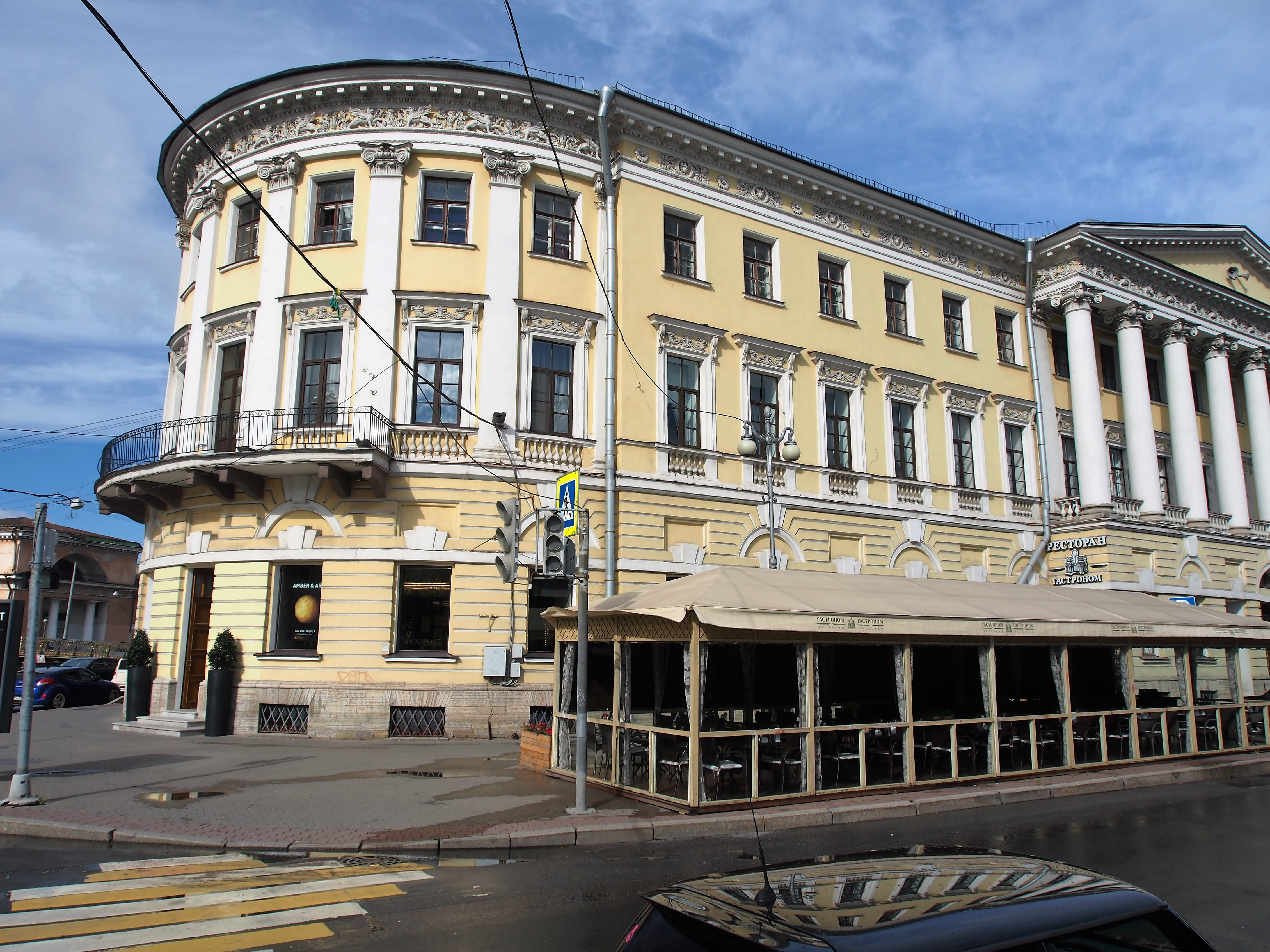 Photographed at Saint Petersburg.